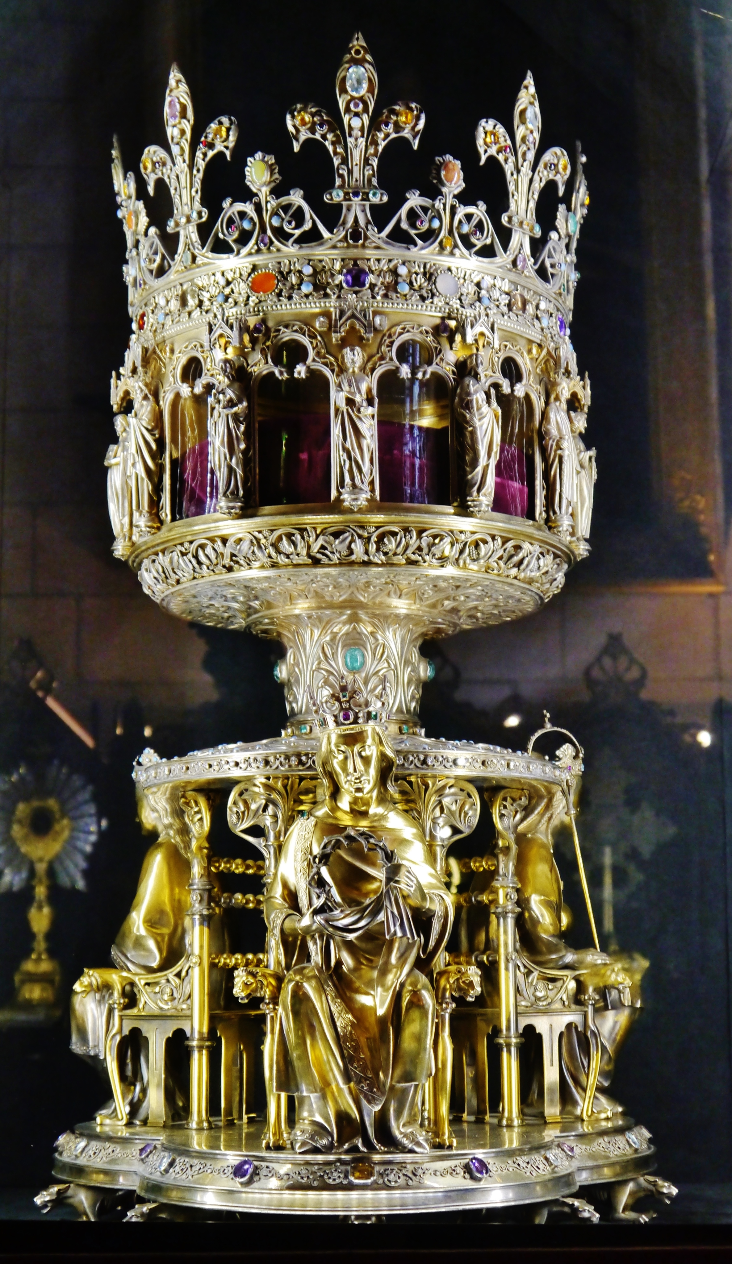 Treasury of the Cathedral of Our Lady, Paris, Region of Île-de-France, France